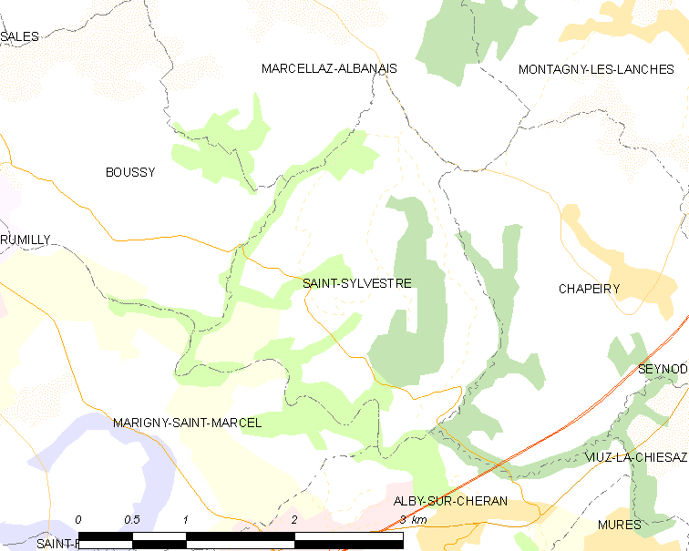 Map of French municipality Saint-Sylvestre